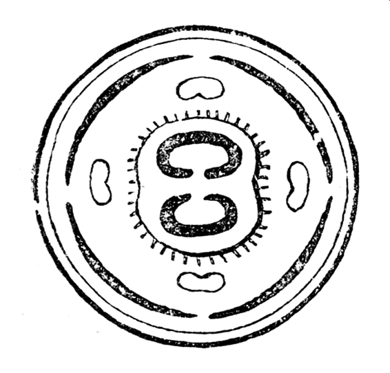 flower diagram of Galium odoratum